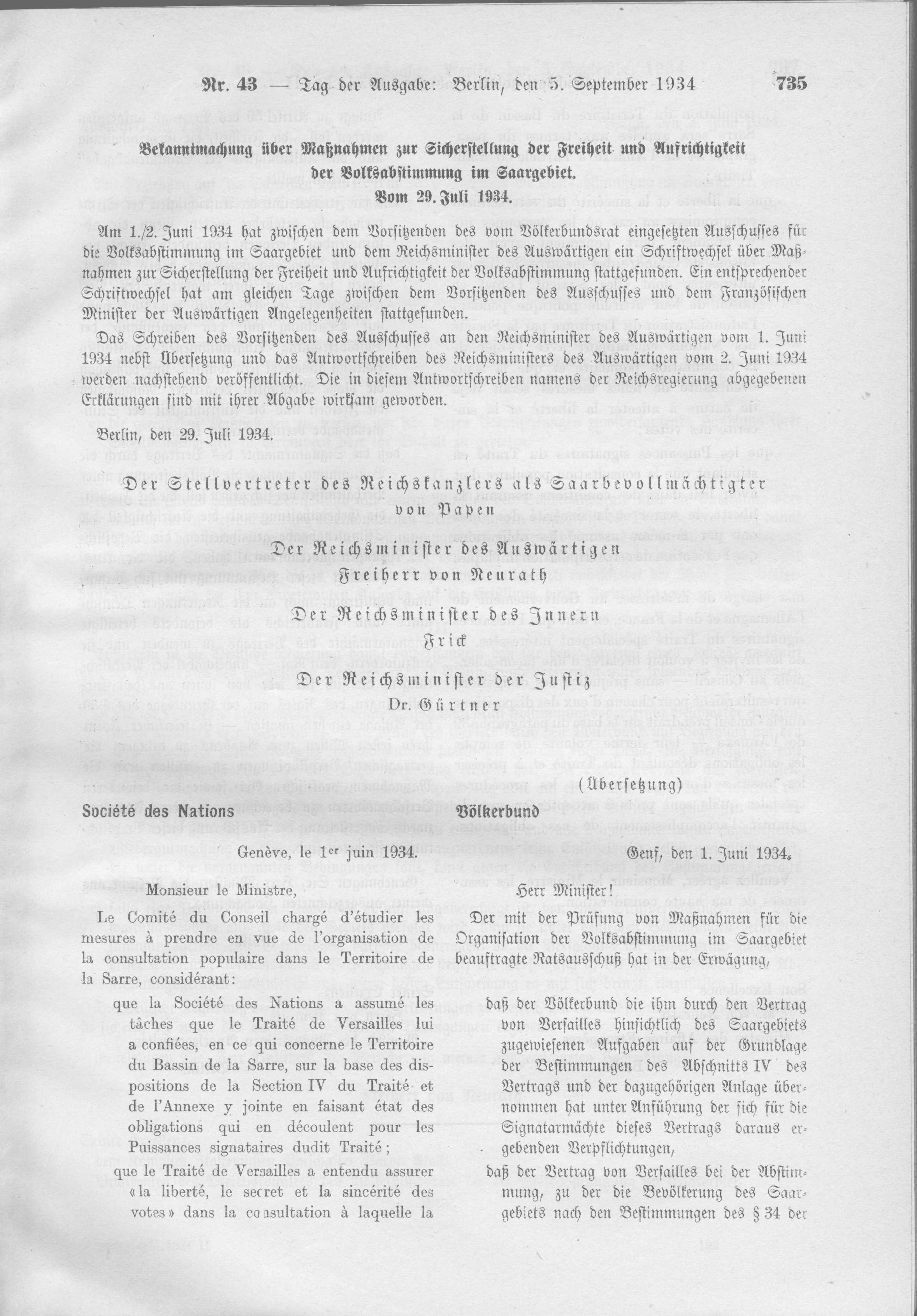 Scan from the Imperial Law Gazette of Germany, 1934, part 2